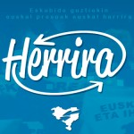 Logo of Herrira network.